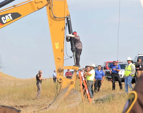 "August 31st, 2016 - North Dakota - The #NoDAPL water protectors who have come to stand with Standing Rock Sioux Tribe took non-violent direct action by locking themselves to construction equipment. This is "Happy" American Horse from the Sicangu Nation, hailing from Rosebud."